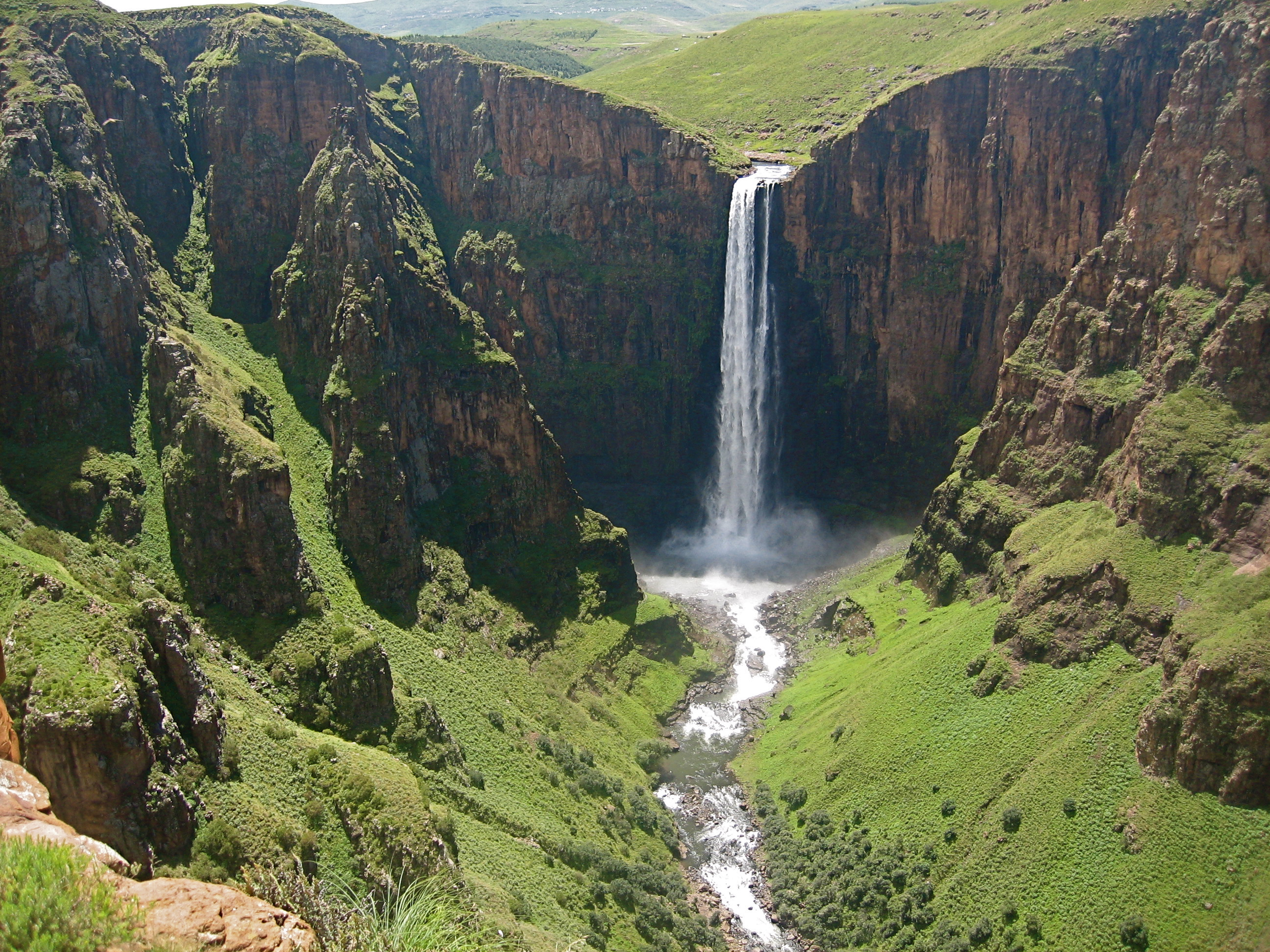 The 192 m high Maletsunyane Falls, found near the village of Semonkong, in the Country of Lesotho.